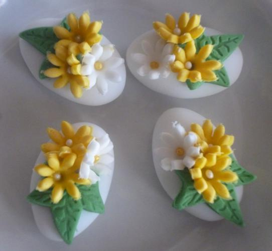 Sugar Plum Hand decorated, made ​​of sugar paste.